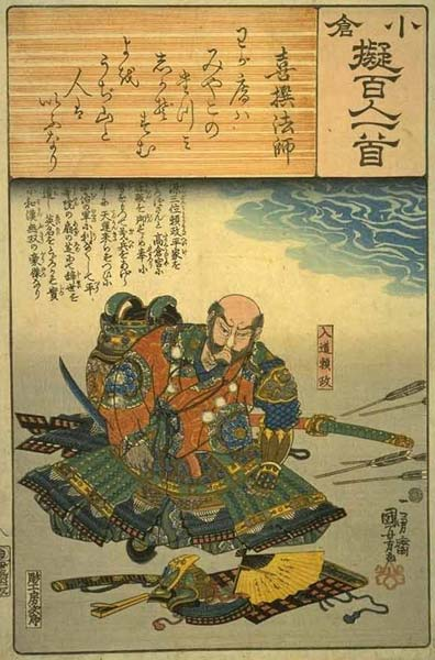 Title: Ornamental Papers Patterned After the 100 Poets Ogura nazora-e Hyaku-nin isshu Date: 1845-1849 Publisher: Fujiokaya Format: Oban tateye Number of Prints: 100/100 References: Stewart , Albuquerque (403-414) Notes: This series comprises of 35 prints by Hiroshige, 51 by Kuniyoshi and 14 by Kunisada (signed Toyokuni). The prints are labeled here with the name of the artist followed by the name of the poet. WebLinks: Thanks to the Kunisada Project for the details. The text of the 100 poems can be found at Ogura Hyakunin Isshu.